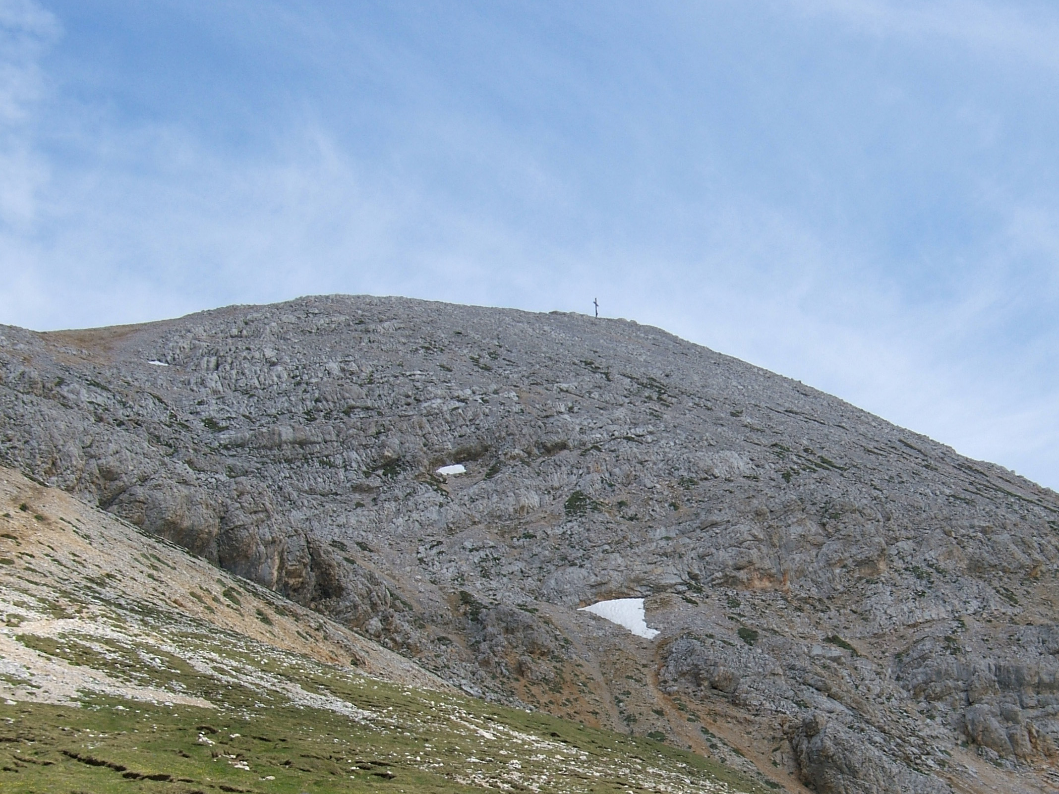 Col Bechei from south